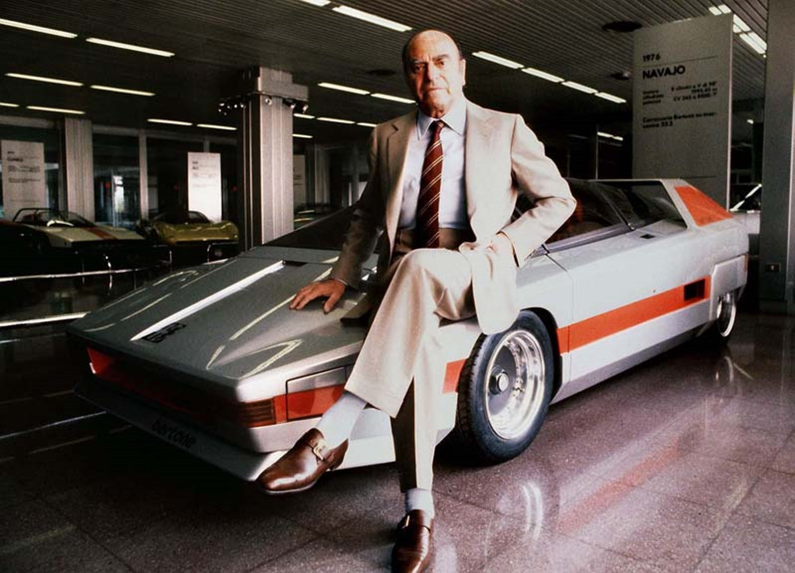 Nuccio Bertone sitting on the Alfa Romoleo Navajo from 1976.